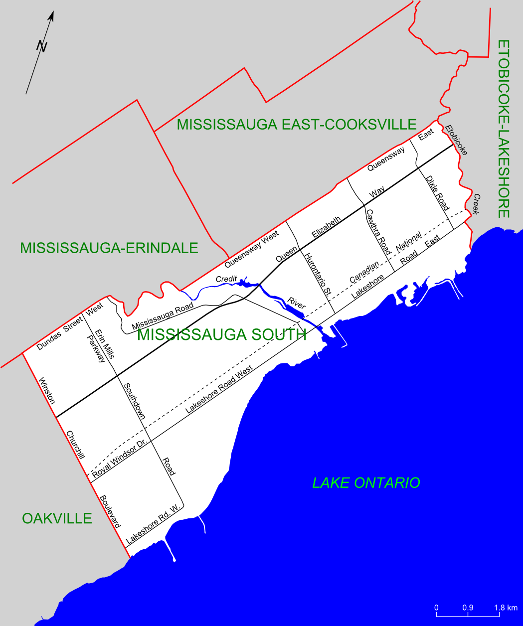 Map of the Ontario federal and provincial riding of Mississauga South. Boundaries defined in 2003, and adopted federally in 2004 and provincially in 2007.